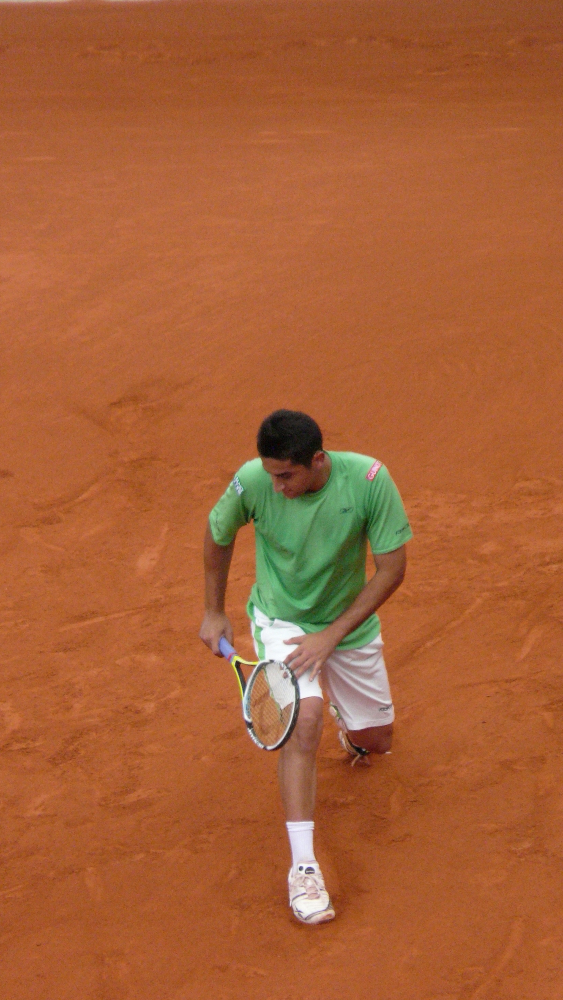 Nicolás Almagro against Rafael Nadal in the 2008 French Open quarterfinals